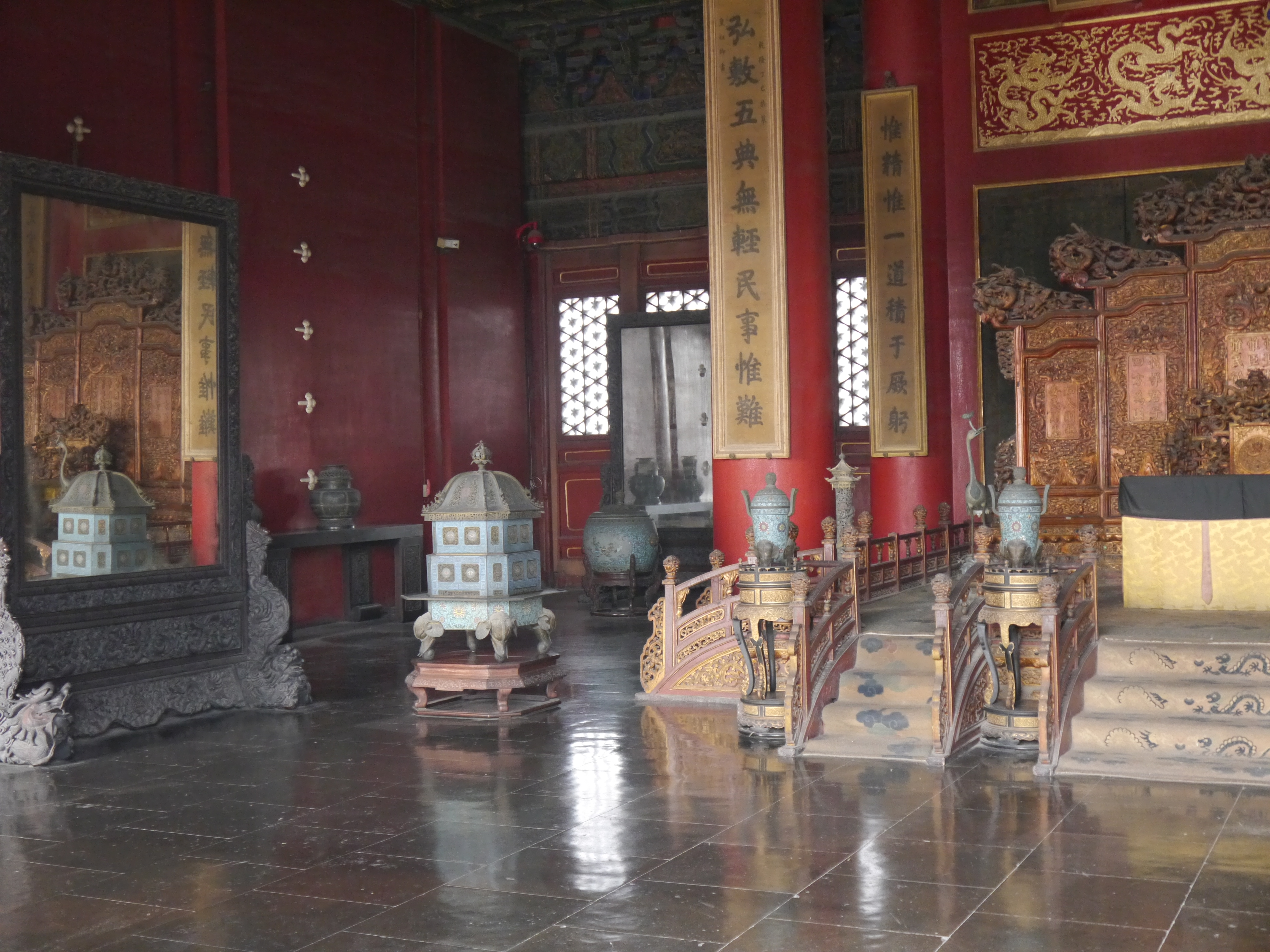 China, Beijing, Forbidden City.